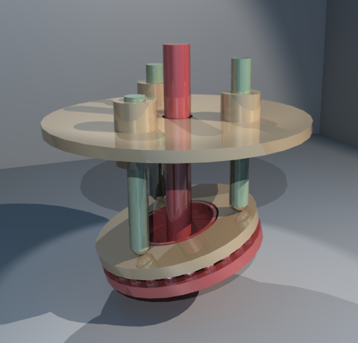 Simple swashplate